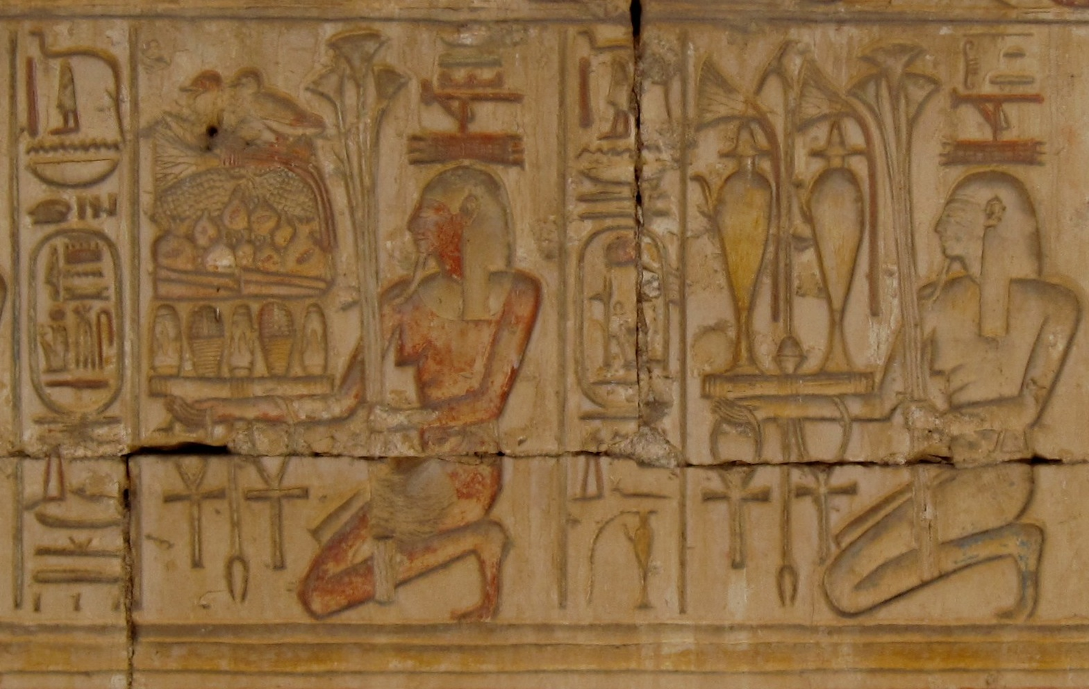 Personified nomes bear offerings to the temple of Ramesses II at Abydos